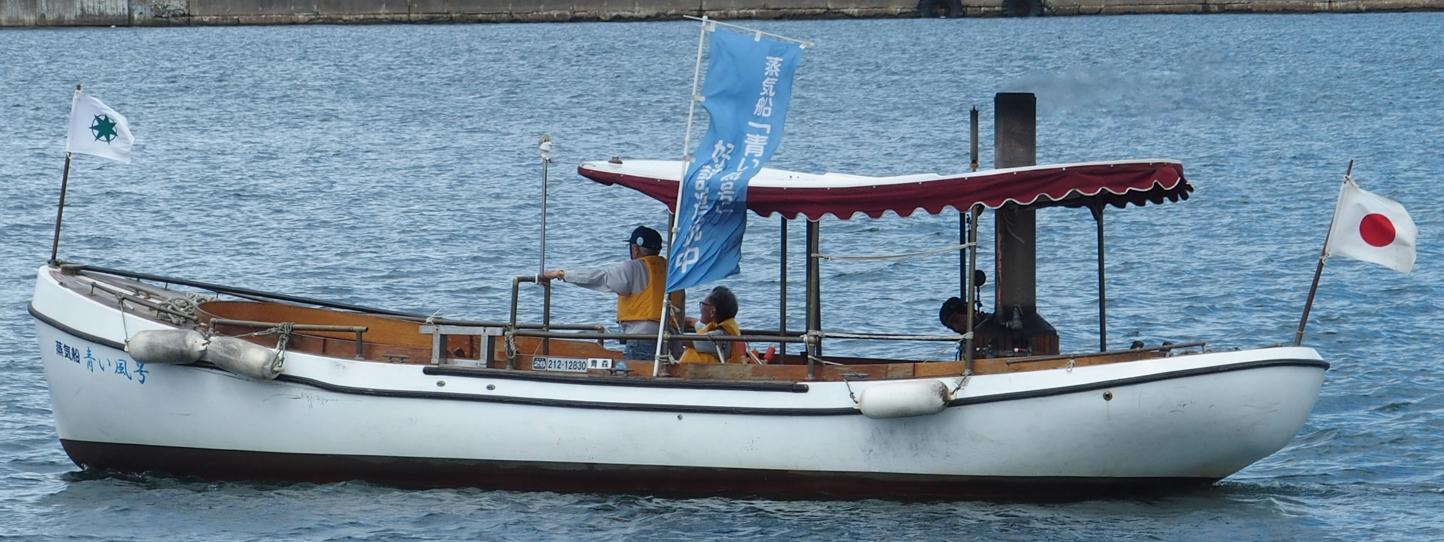 Steam Ship Aoi-Kaze at Port of Aomori , Aomori City, Aomori Prefecture, Japan